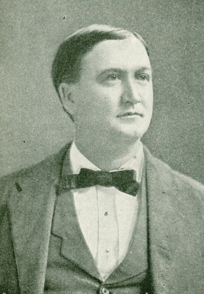 Jeff Davis (1862-1913), of Little Rock, Ark. Governor of Arkansas, 1901-07; U.S. Senator from Arkansas, 1907-13. Image from American Monthly Review of Reviews, November 1902.